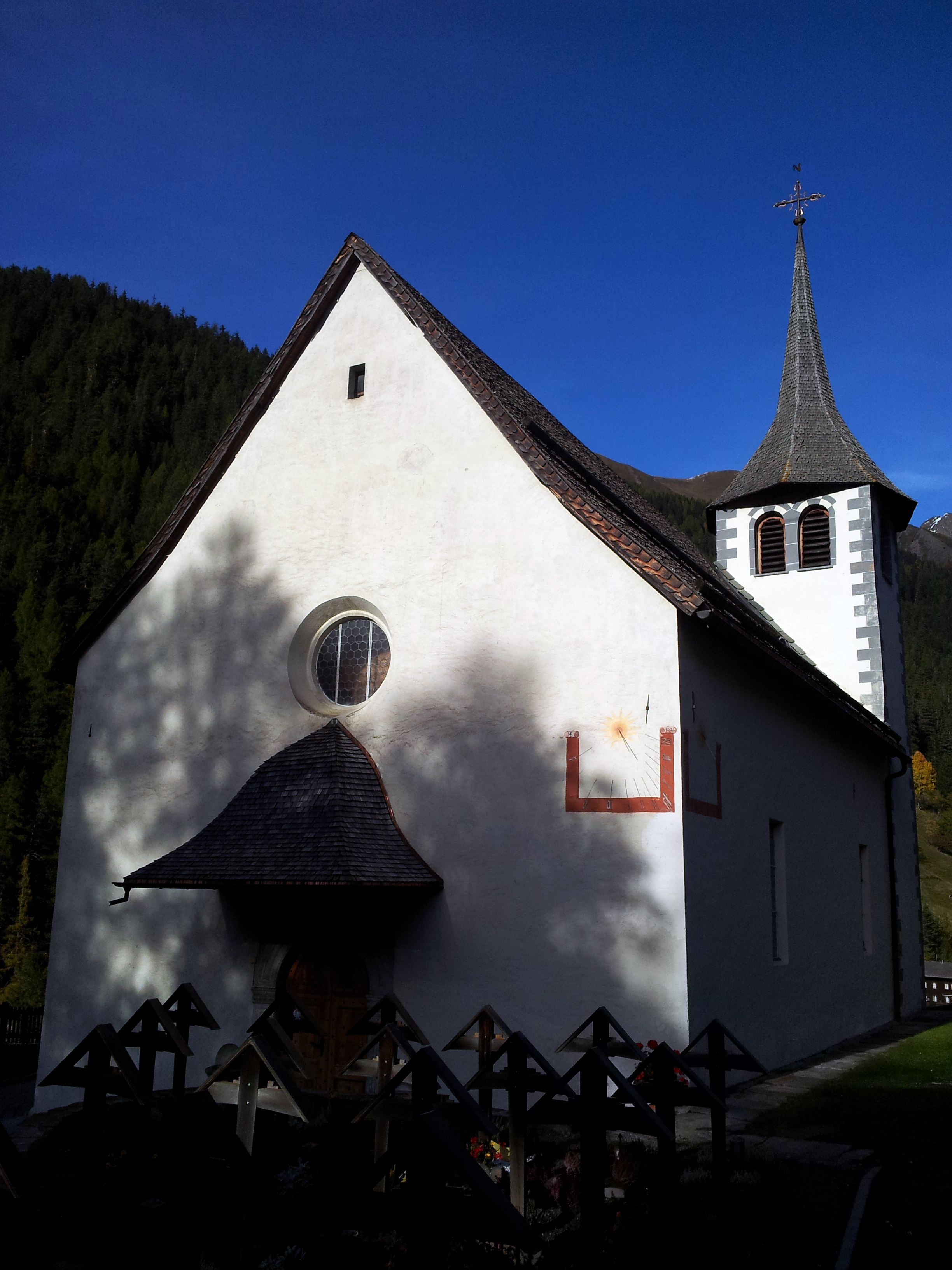 Kirche St. Michael Binn, build 1561-65